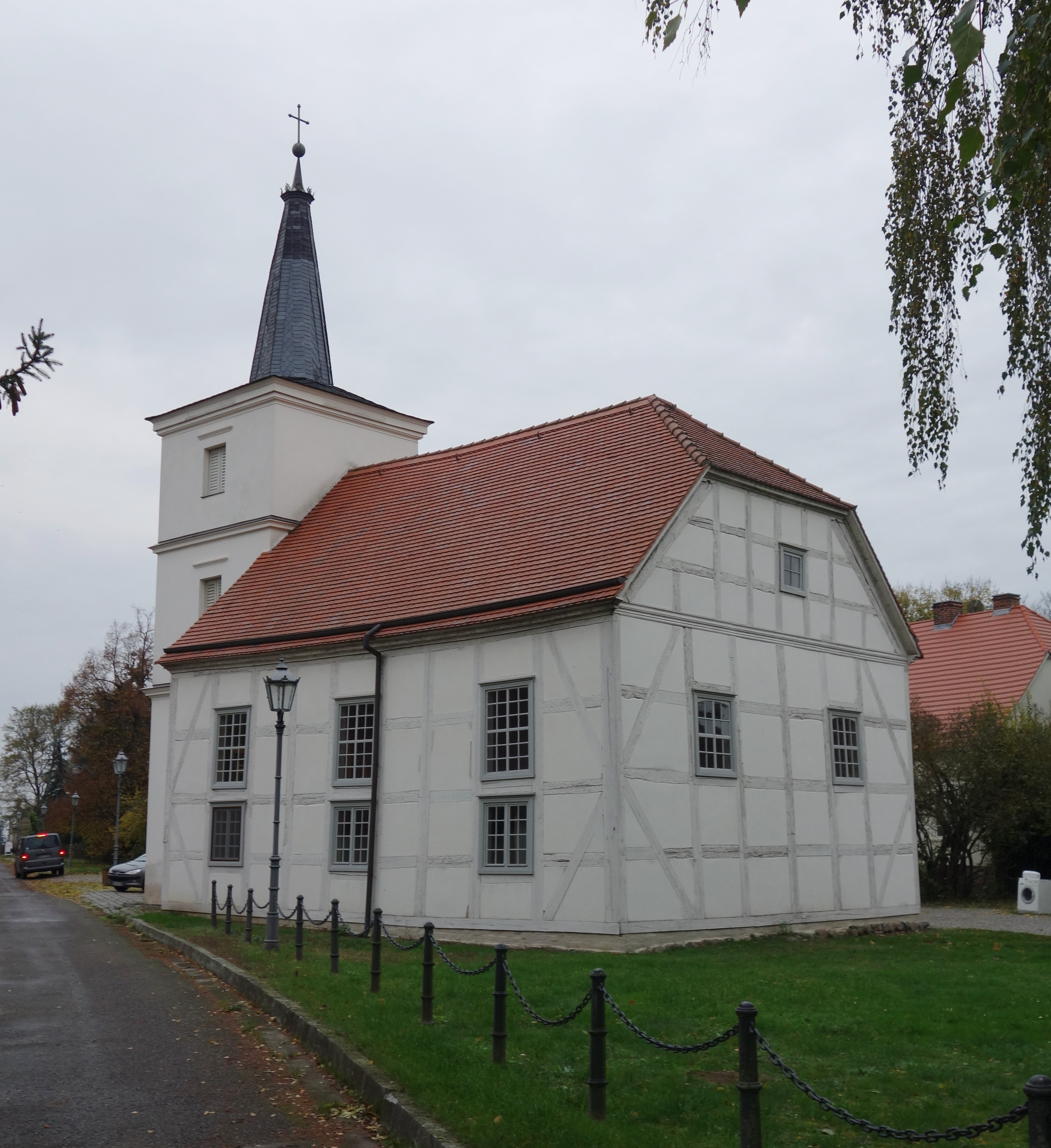 South-eastern view of church in Altwustrow, Oderaue municipality, Märkisch-Oderland district, Brandenburg state, Germany